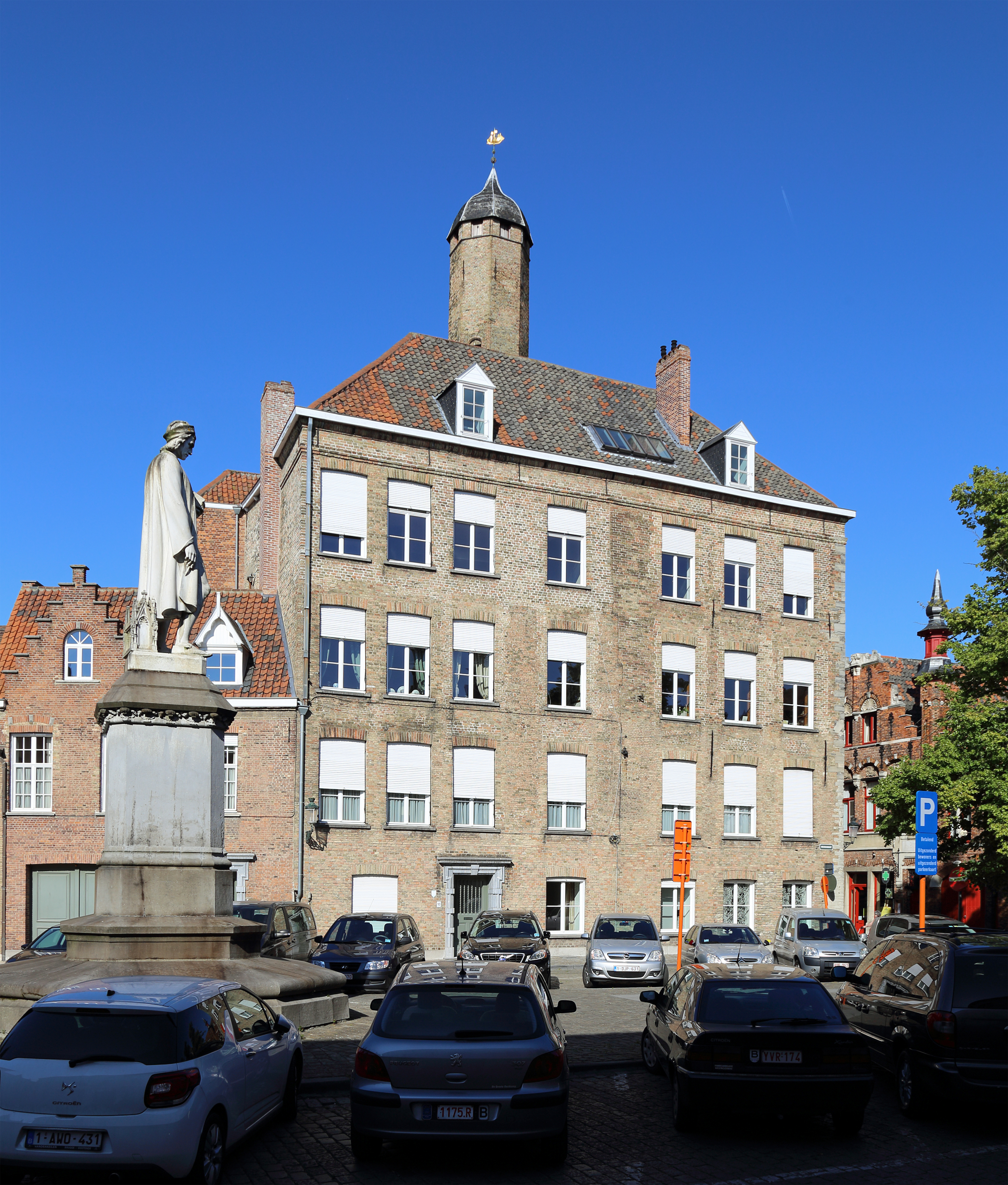 Bruges (Belgium): house Woensdagmarkt 9-10